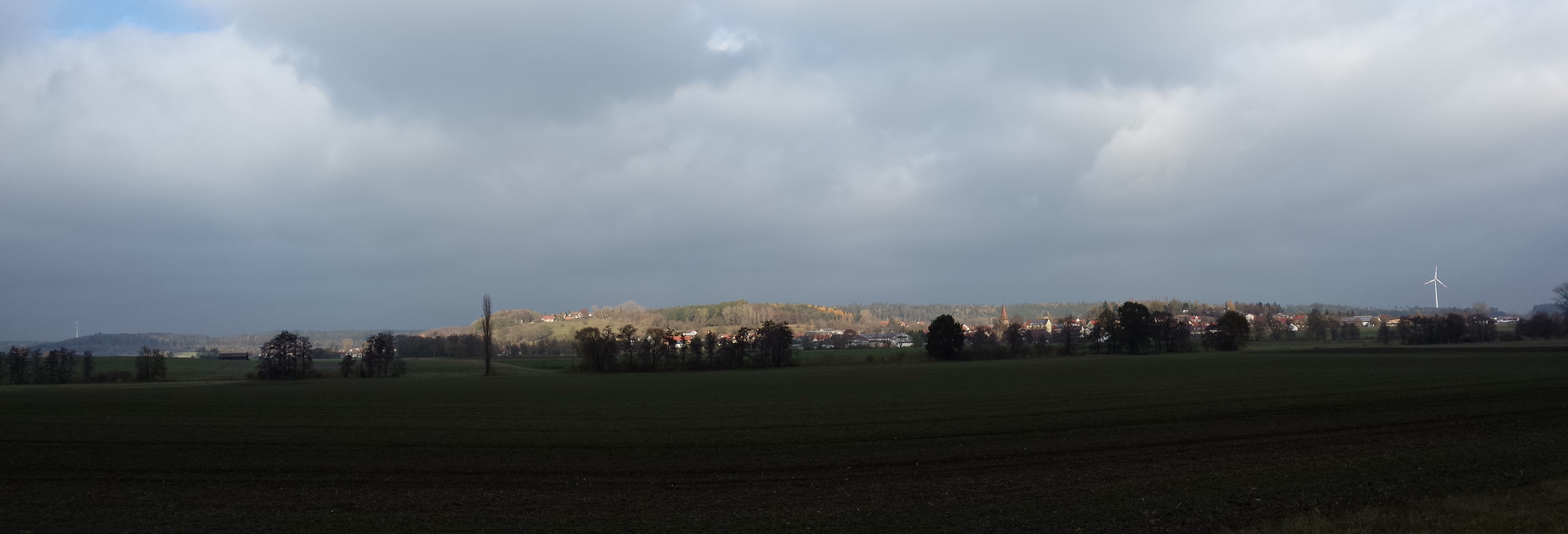 The village of Marktlustenau in the municipality of Kressberg, Baden-Württemberg, Germany